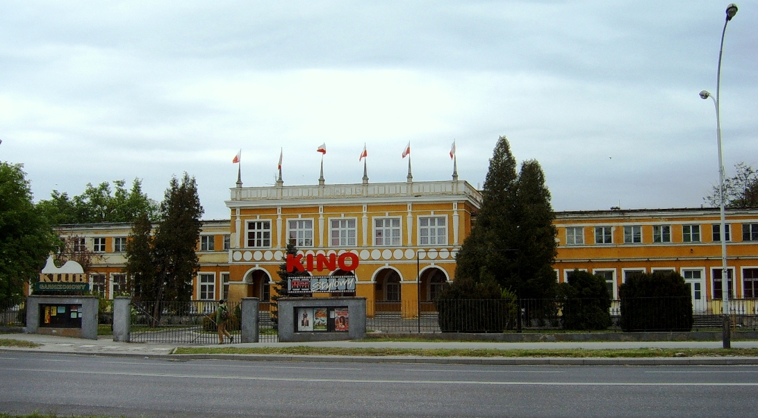 Barracks in Zamość - military cultural center, built 1951-53